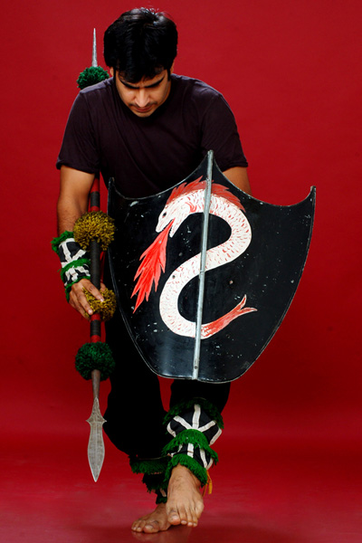 Image of a Thang-Ta practitioner, a martial-arts form from Manipur, India.